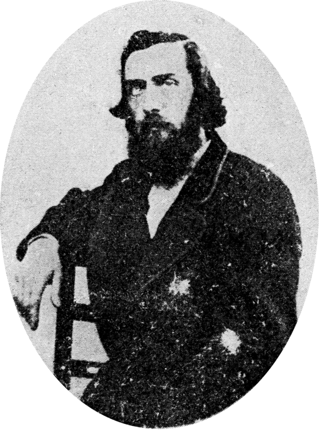 Portrait of Edward Duffy from an old daguerreotype